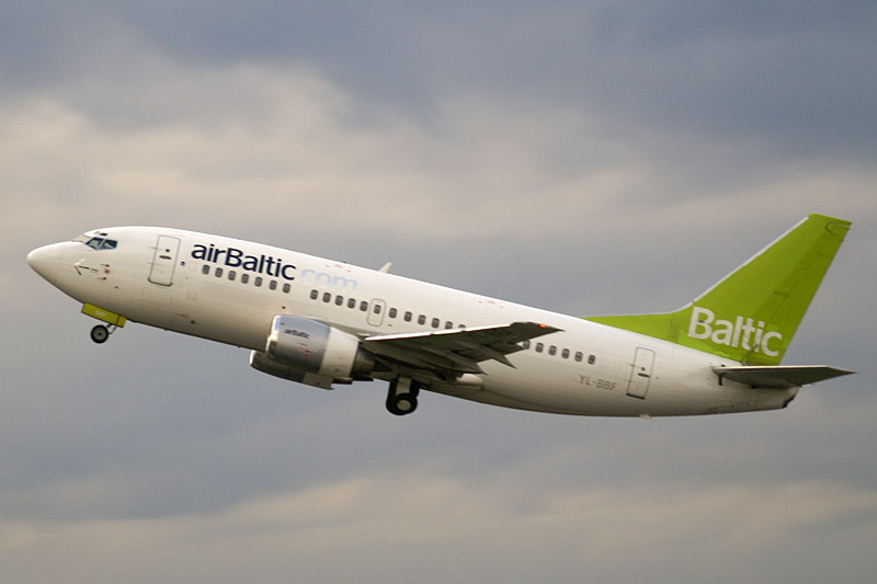 Air Baltic Boeing 737-500 at Berlin-Tegel